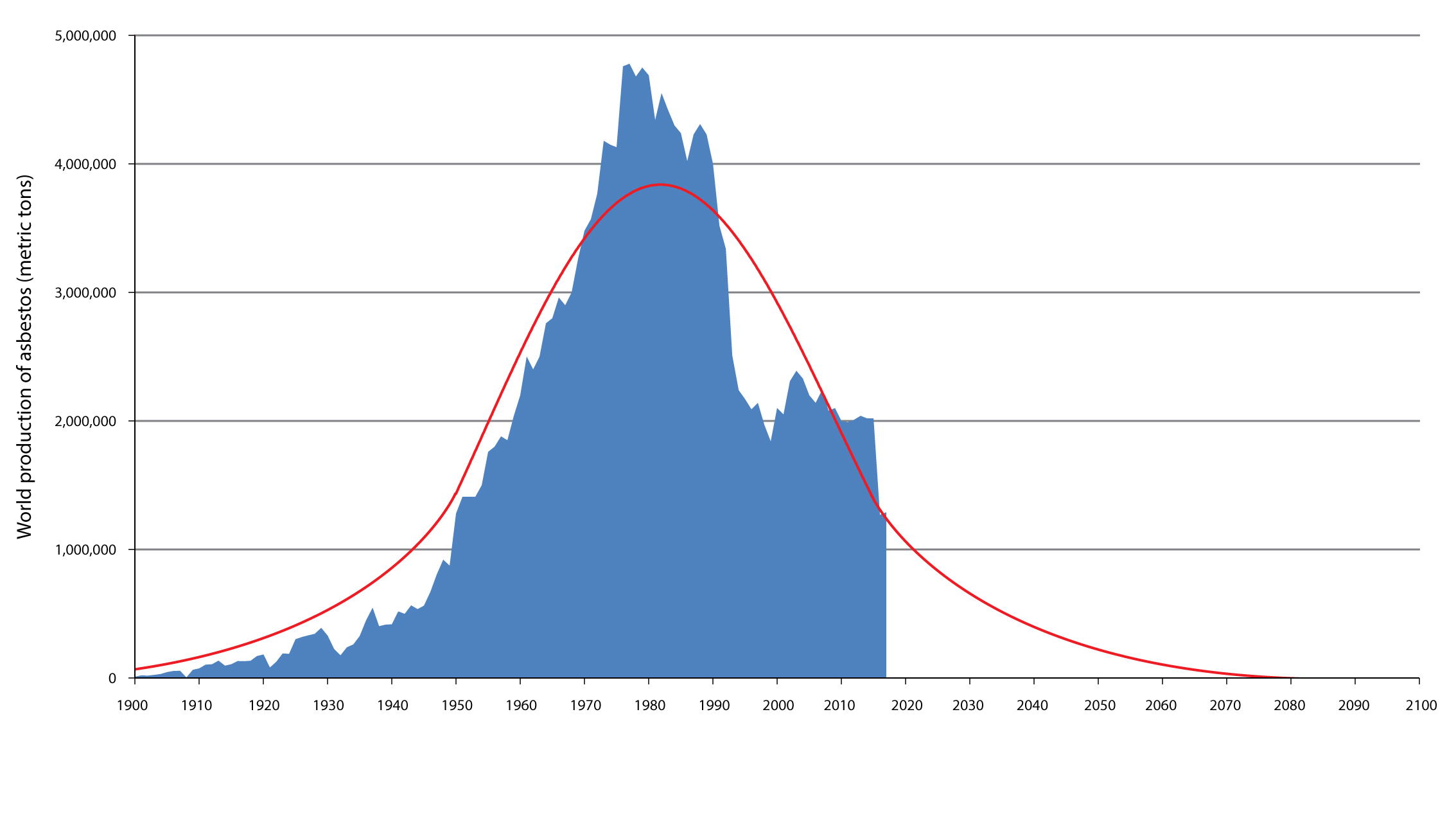 World production of asbestos (metric tons), from 1900 to the present day, also including a trend line. Author of FutureTimeline has given permission for this version of the image to be used.